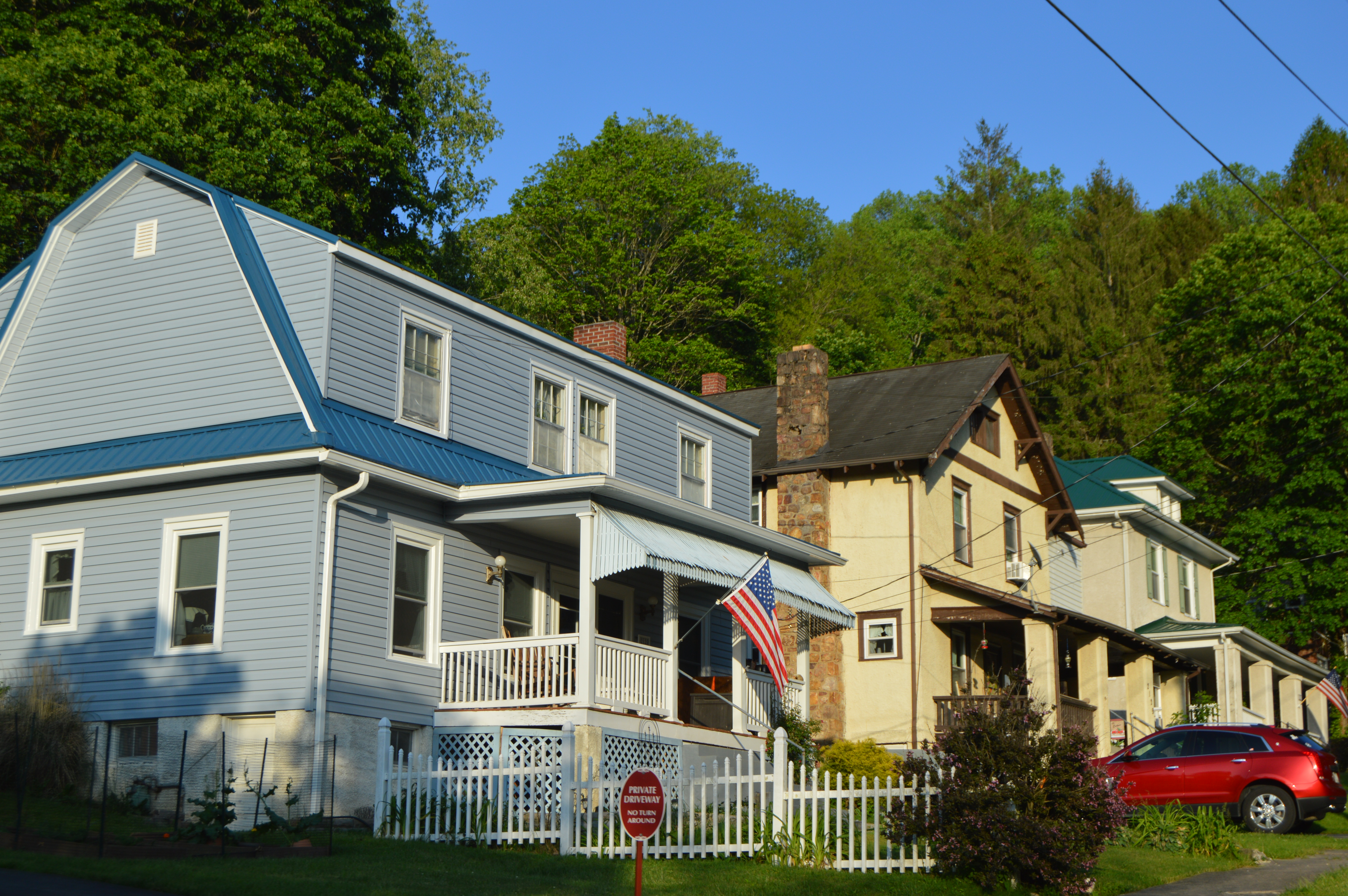 Houses in the 2100 block of Jefferson Street in Bluefield, West Virginia, United States. This block is part of the Jefferson Street Historic District, a historic district that is listed on the National Register of Historic Places.